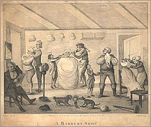 A Barber's Shop. Copperplate engraving